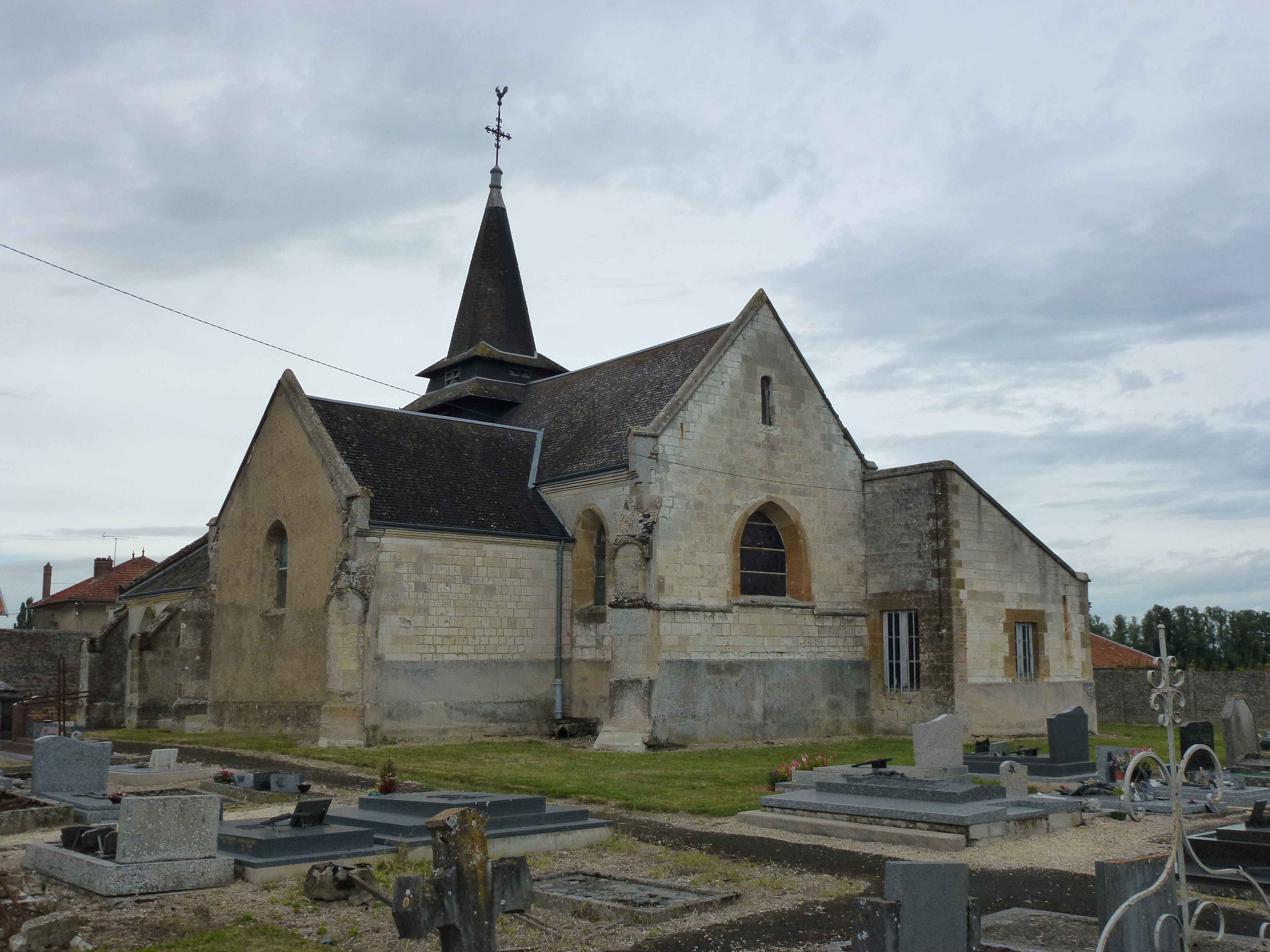 Ambly-Fleury (Ardennes) église